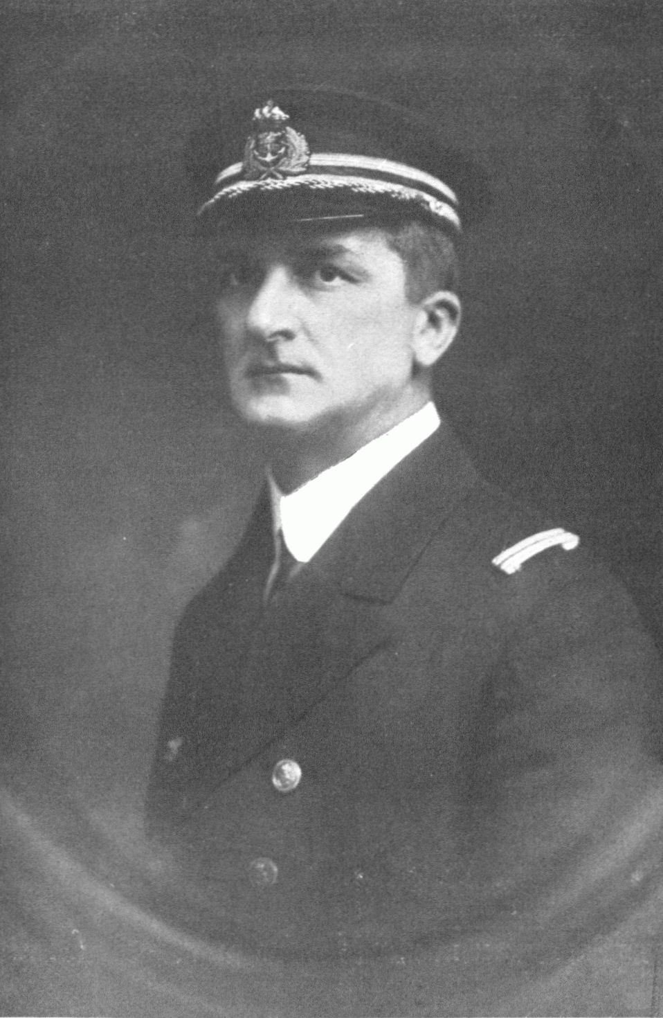 Miklós Horthy von Nagybánya (1868-1957), Hungarian admiral and politician